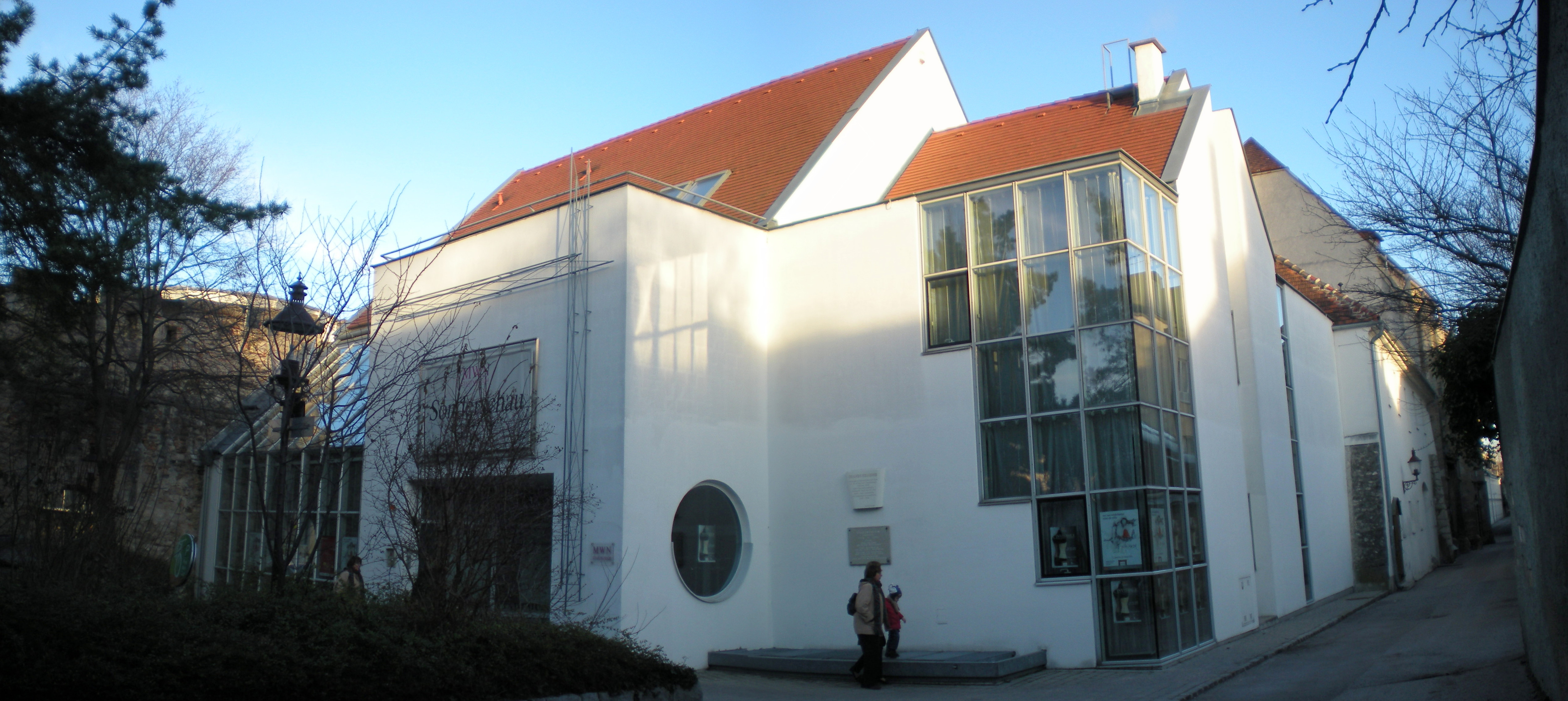 Municipal museum of Wiener Neustadt, Lower Austria, as it was before being remodelled for the 2019 State Exhibition